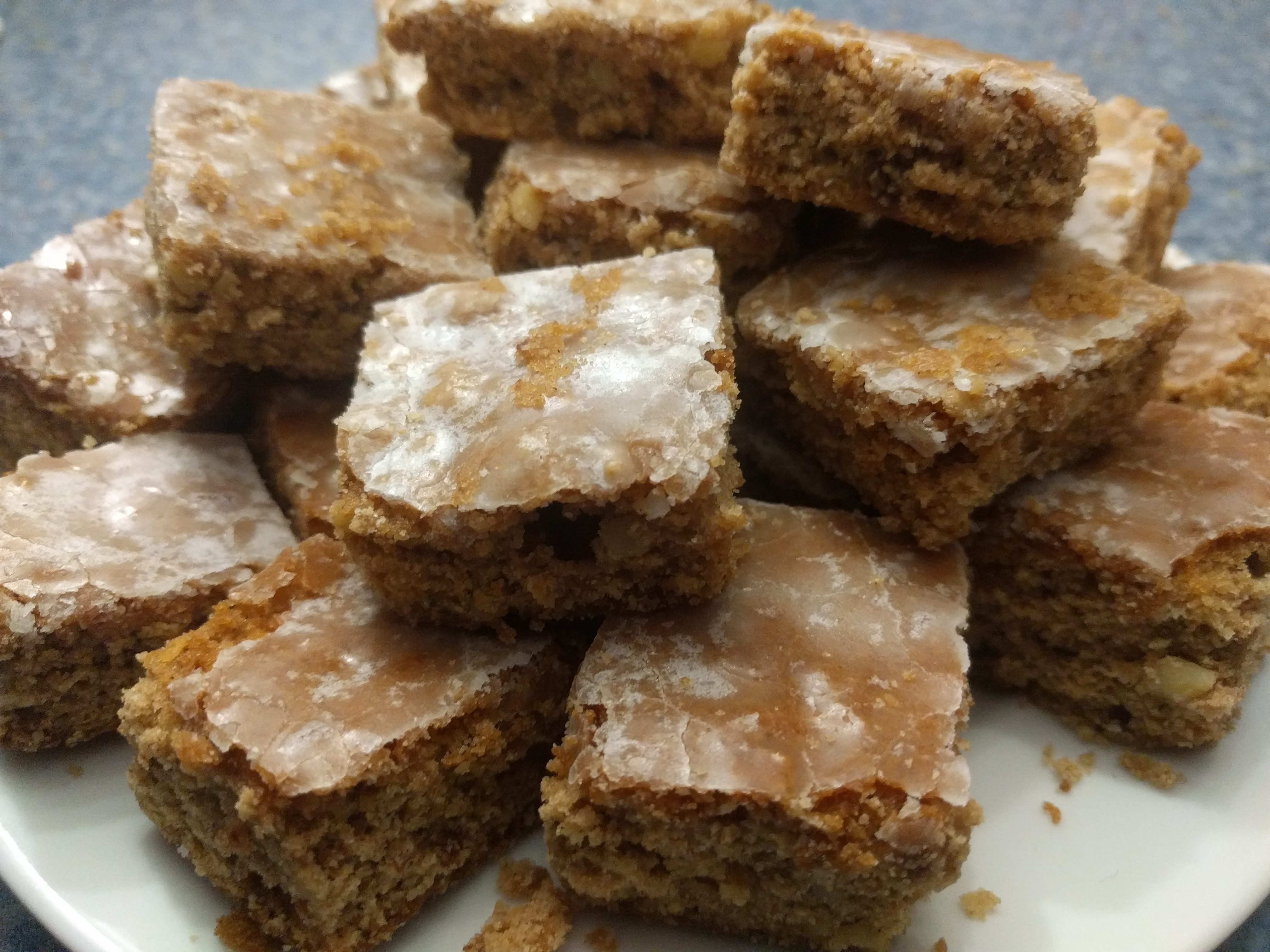 Berliner Brot put on display on a plate